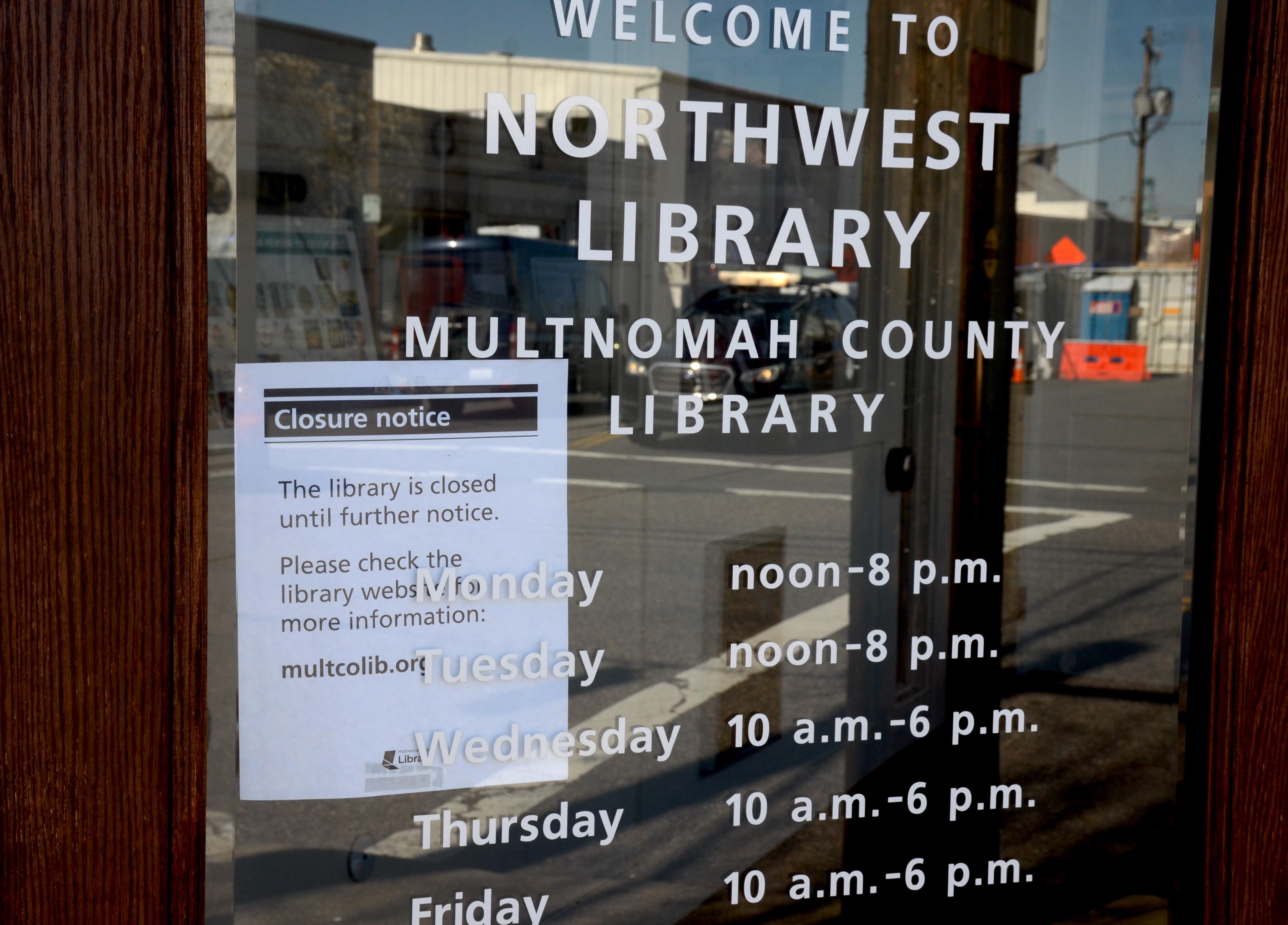 Notice taped in the window of the main entrance to the Multnomah County Library's Northwest branch, indicating that it is indefinitely closed (along with all of the county's libraries), to prevent the spread of the coronavirus/COVID-19.